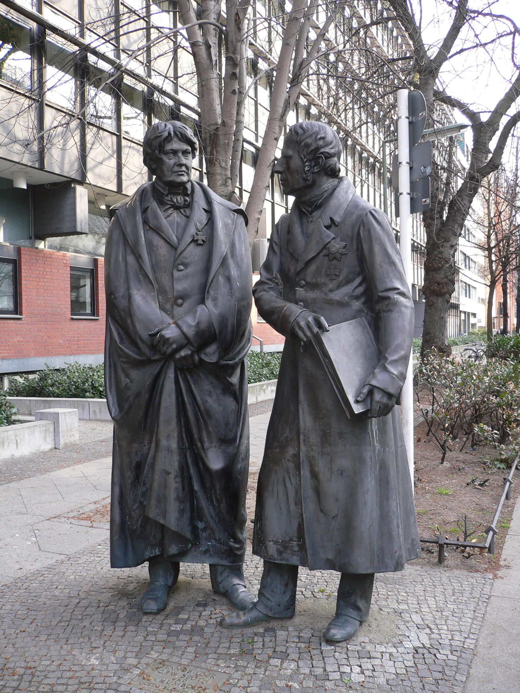 Berlin-Mitte, Tiergarten, Burggrafenstraße 6 – Statues: C. P. W. Beuth und W. v. Humboldt, 1878 by Gustav Blaeser, in front of the DIN-building